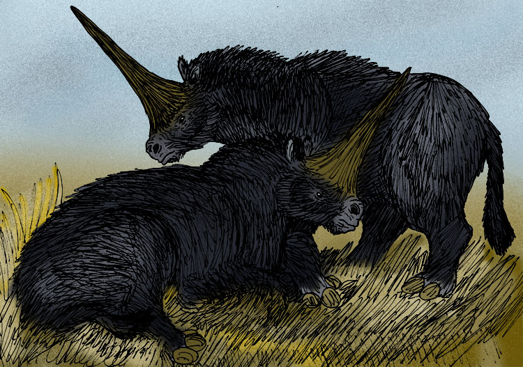 My reconstruction of the "Giant Unicorn" rhinoceros, Elasmotherium sibiricus of Pleistocene Siberia (C) Stanton F. Fink